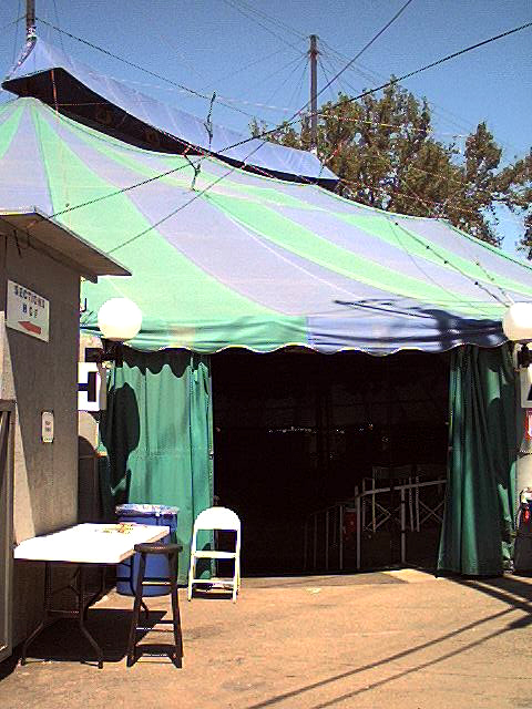 Sacramento Music Circus Tent. Submitted by photographer.